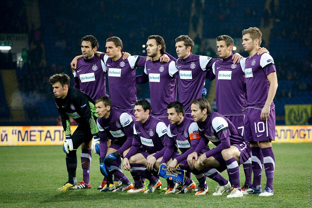 FC Metalist Kharkiv 4-1 FK Austria Wien José Ernesto Sosa scored one and set up two as the Ukrainian side sealed their place in the last 32, though Austria Wien could yet join them.